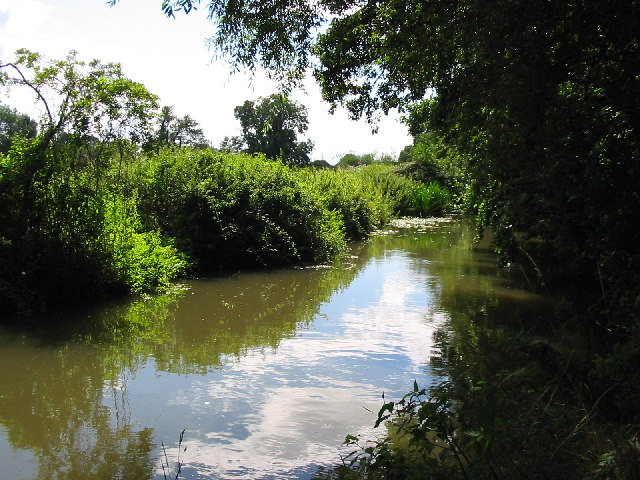 The Holy Brook, an ancient but probably man made channel of the River Kennet to the south of Calcot, Reading, Berkshire, England. For more information see the Wikipedia article Holy Brook.